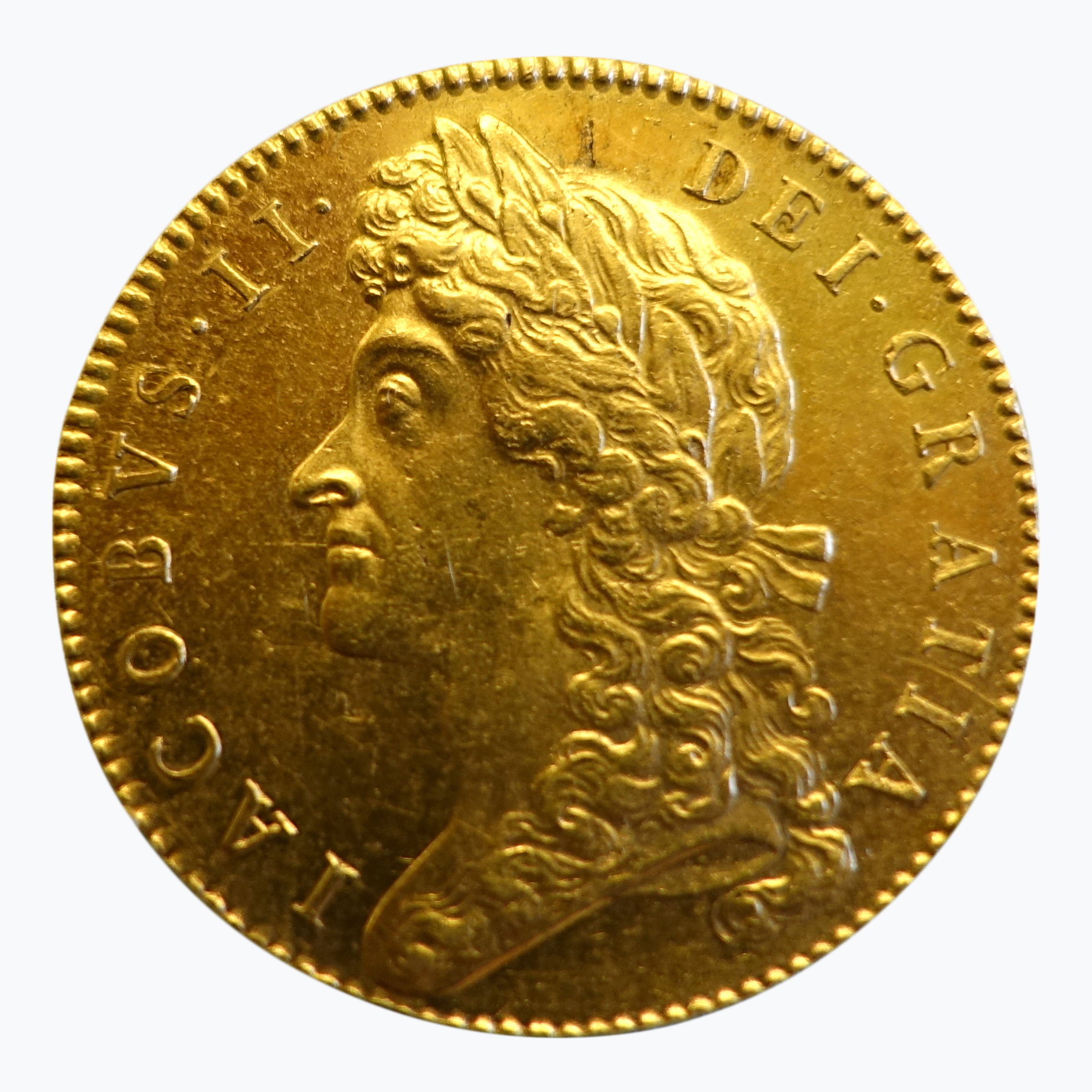 Exhibit in the Bode-Museum, Berlin, Germany. This work is in the public domain because the artist died more than 100 years ago.